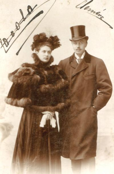 Karola Szilvássy and her husband, baron Elemér Bornemissza